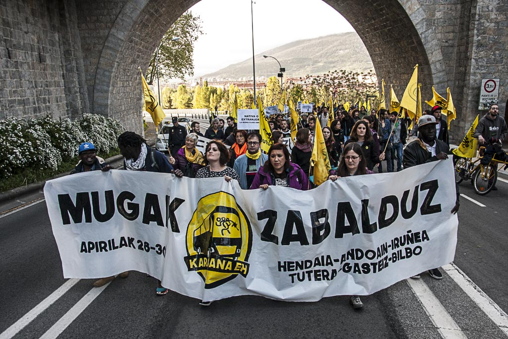 Rally in Pamplona protesting the shutdown of borders for immigrants